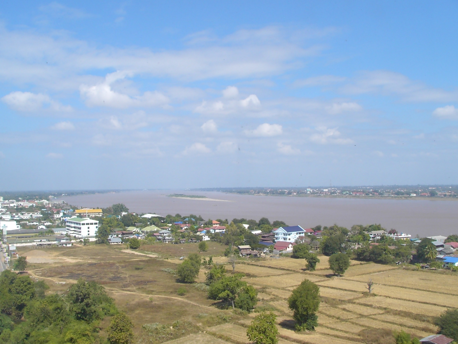 Mukdahan Haw Kaew Observation Deck View North